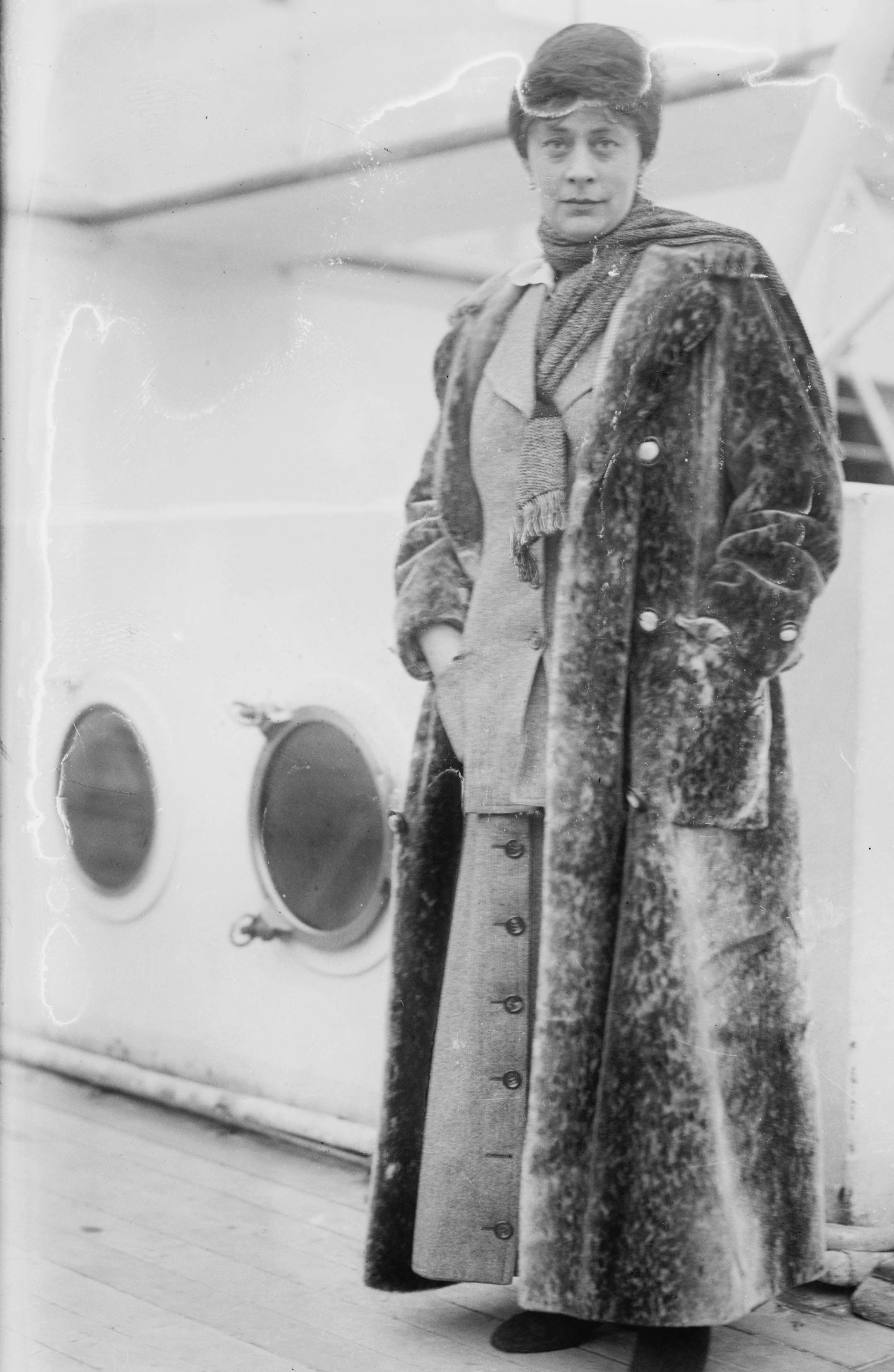 Title: Betty Nansen Abstract/medium: 1 negative : glass ; 5 x 7 in. or smaller.